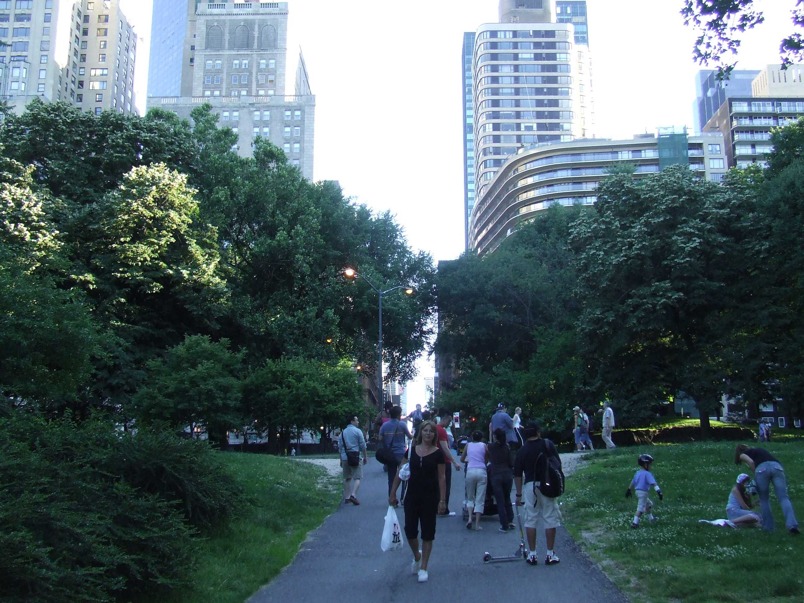 Looking south across carriage drive towards 7th Avenue gate of New York City Central Park